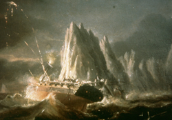 Painting in the collection of the Hampshire and Wight Trust for Maritime Archaeology.